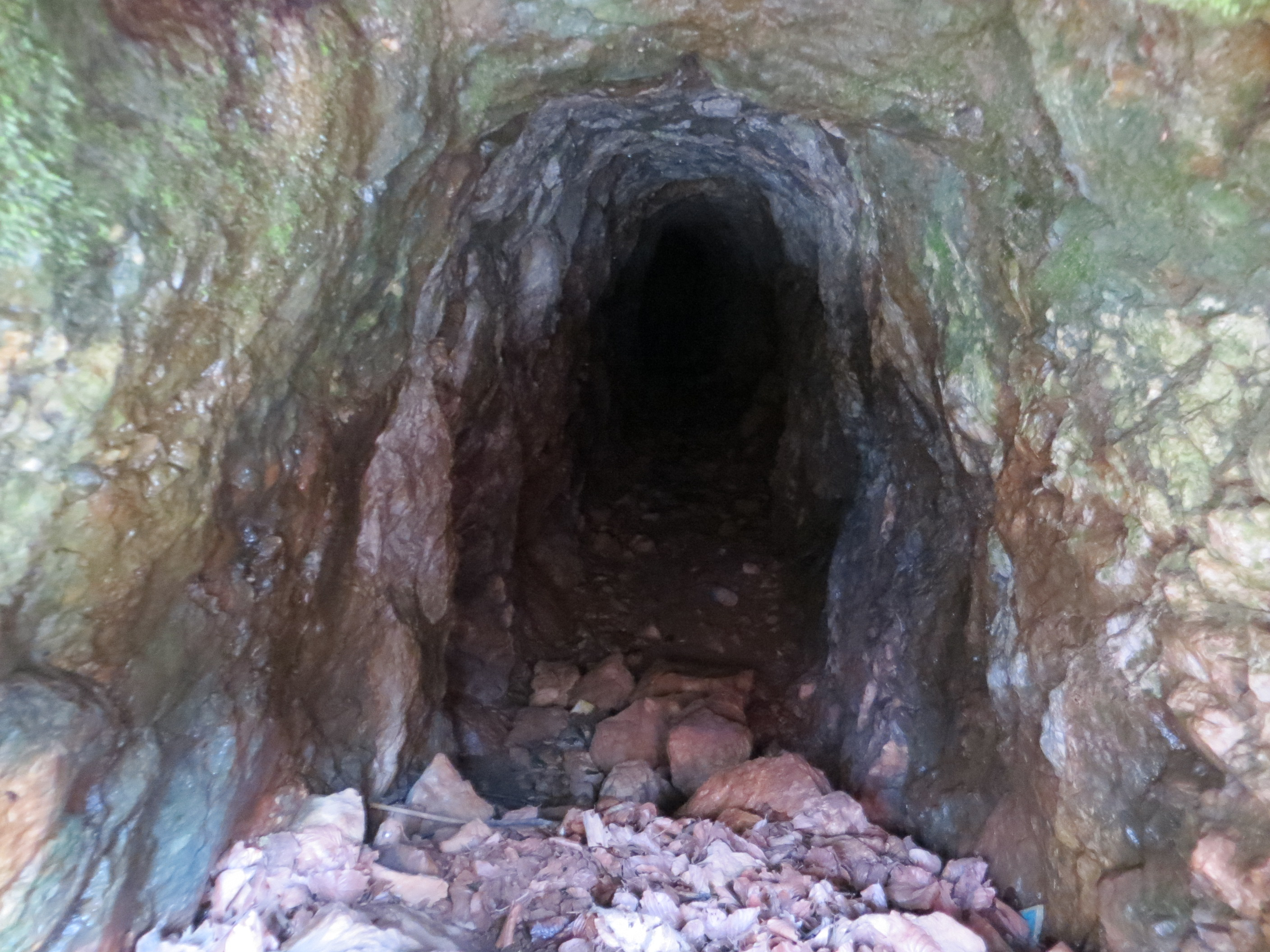 Cave entrance (without flash) in Vodice nad Kamnikom, Municipality of Kamnik, Slovenia